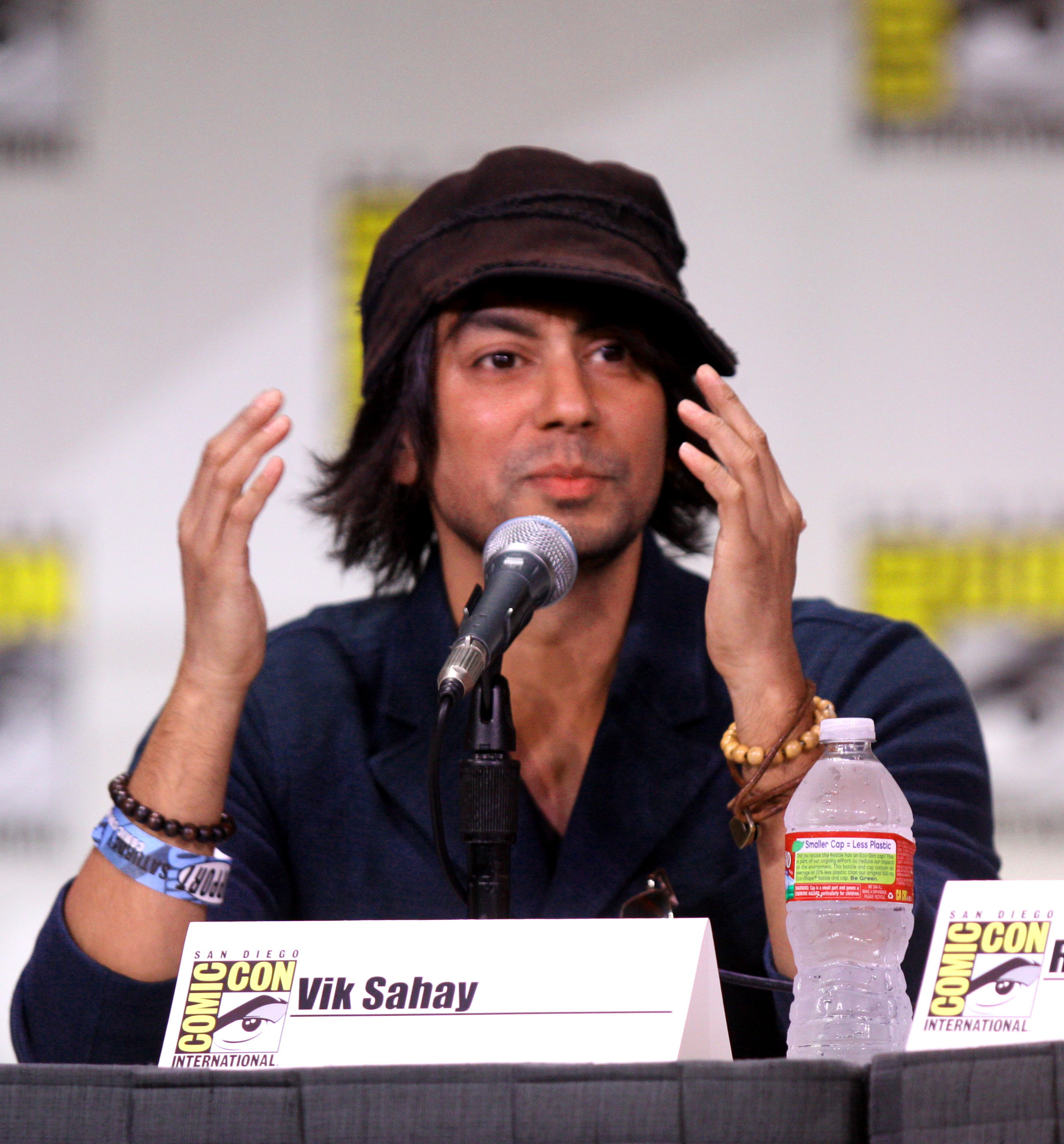 Vik Sahay at Comic Con in 2011